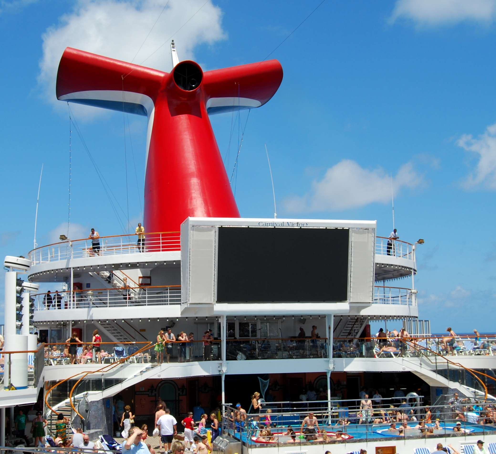 Seaside Theater on the Carnival Victory